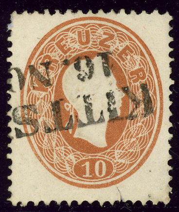 Austrian KK 10kreuzer stamp, issue 1861, cancelled KITTSEE Mueller type RL-R, Burgenland (Hungary after 1867)